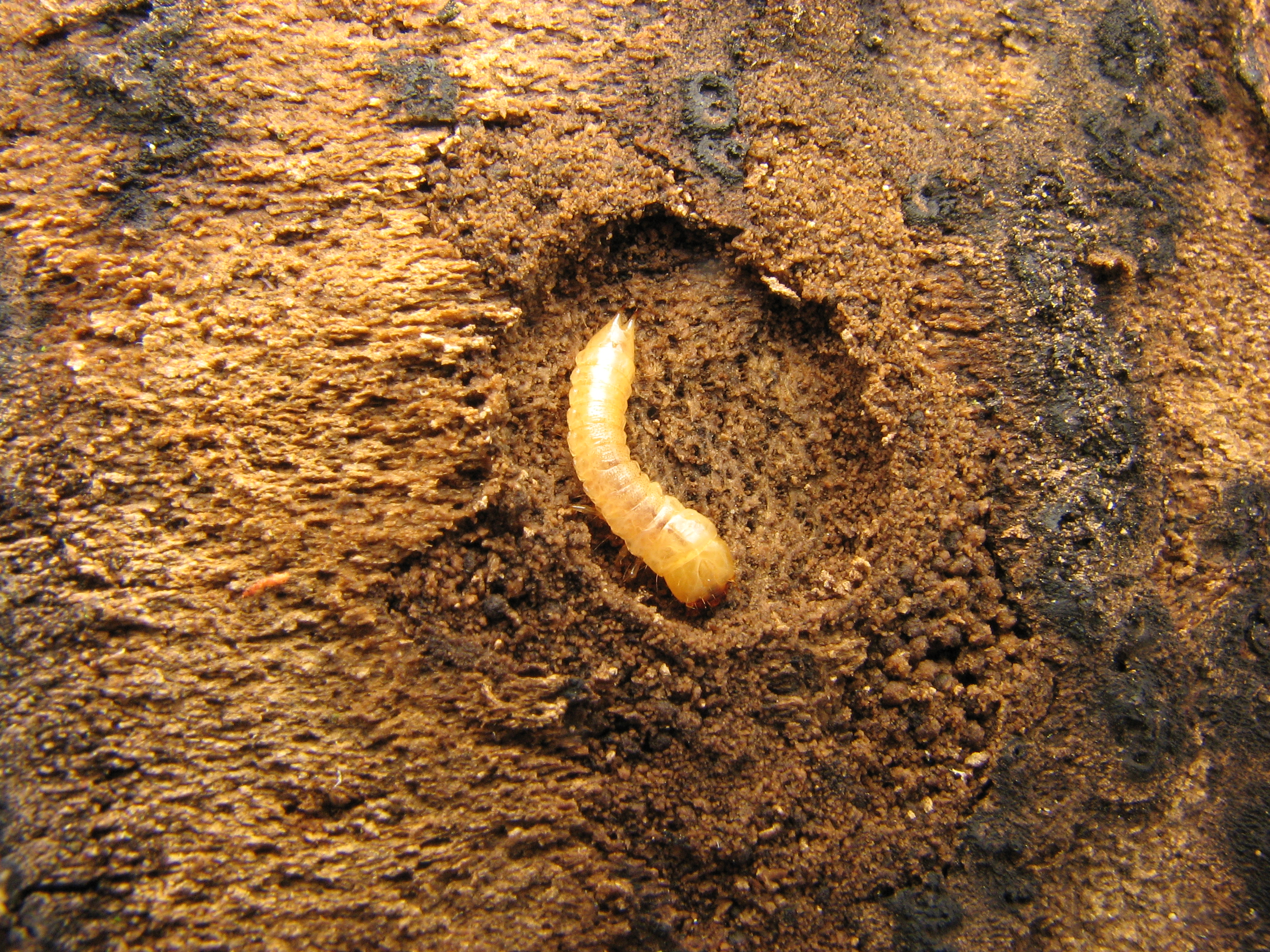 Bark beetle, Synchroa punctata, larva in its cell under bark. Size: +/- 12 mm. Pennypack Restoration Trust, Montgomery County, Pennsylvania, USA.